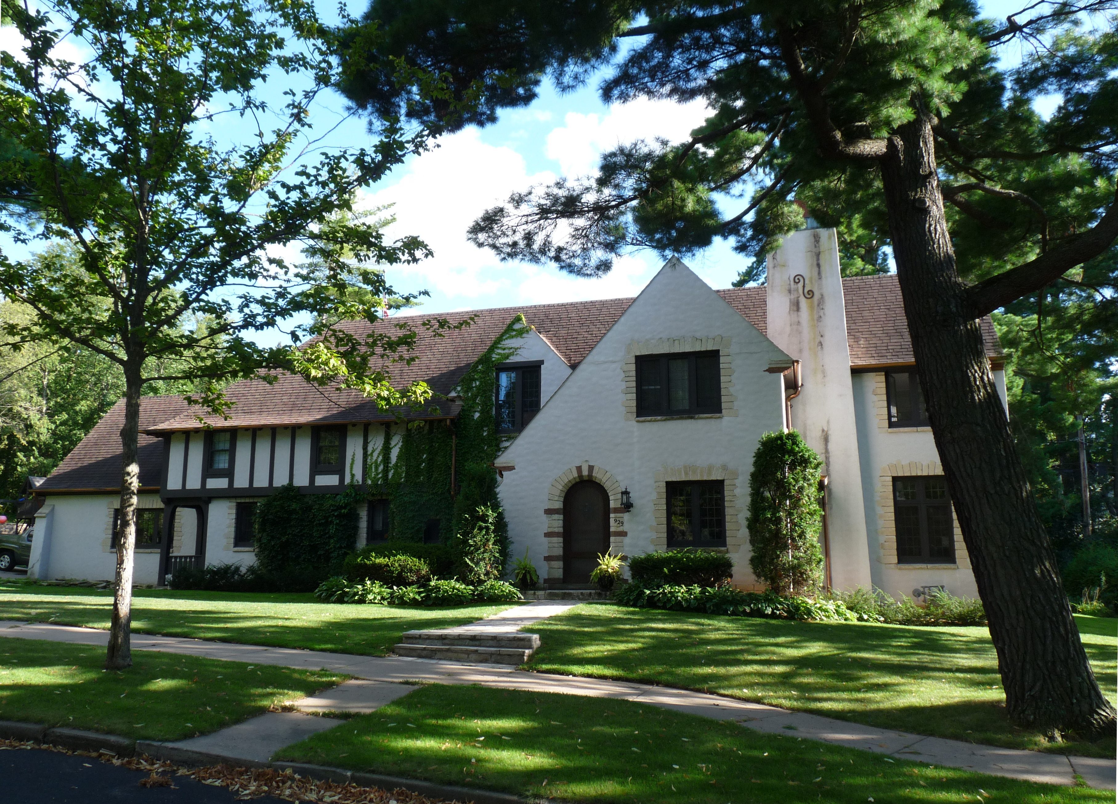 The C. F. Dunbar House in Wausau Wisconsin was built in 1929, a neo-Elizabethan design by Alexander Eschweiler. It's also known as the Letitia Single Dunbar House. The house is listed on the National Register of Historic Places.